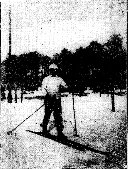 Professor NAGAI Domei is skiing. This photo is from Jiji-shinpo newspaper in January 22, 1911.